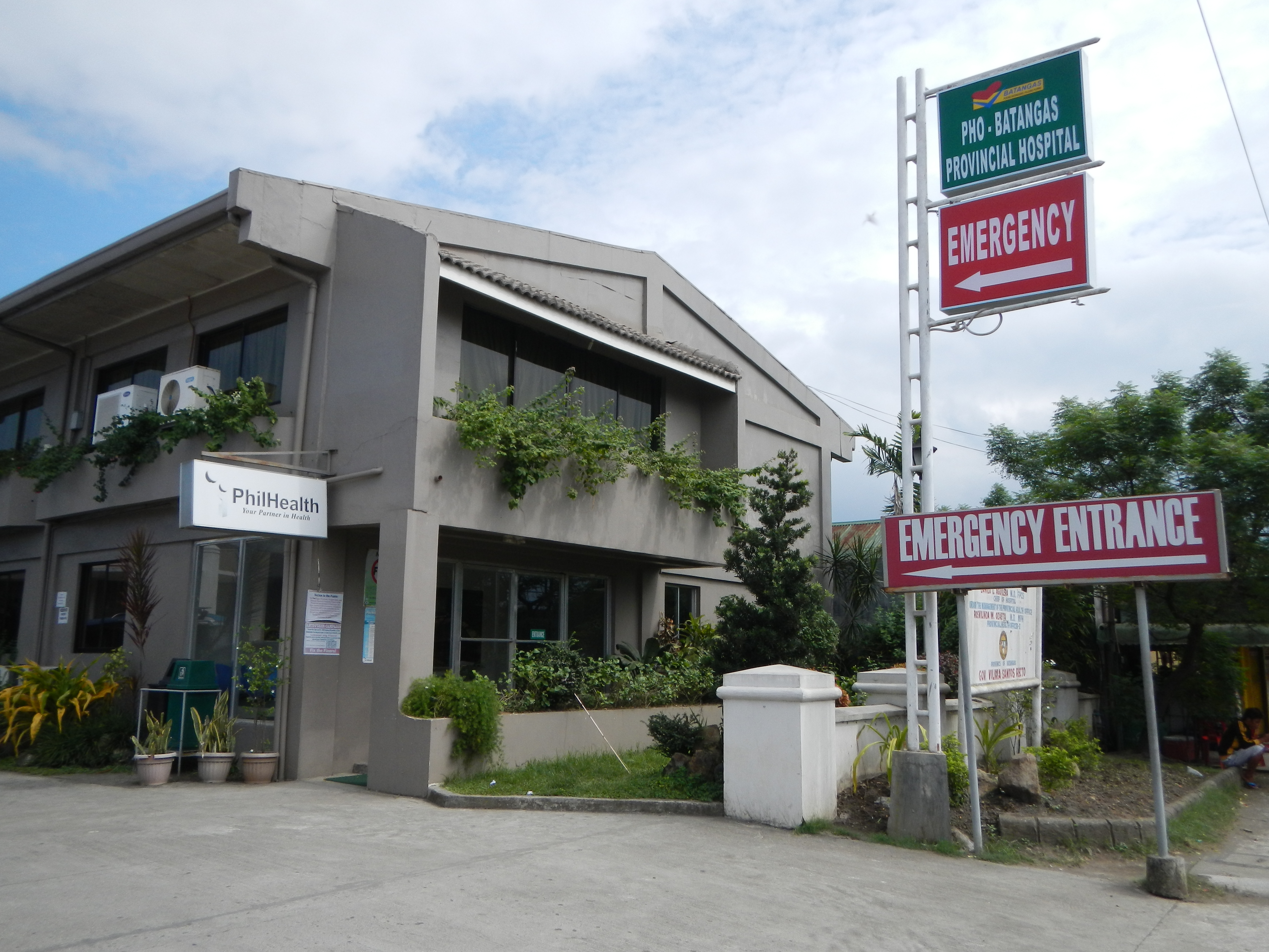 Upload Wizard photos Welcome Arch of - of Lemery, Batangas downtown, crossing - downtown - Lemery, Batangas[1], the Planas Bridge, KM 127 + 622 and beneath is - the 8-kilometer Pansipit River [2] (a short river located in the Batangas, Philippines, the sole drainage outlet of Taal Lake, which empties to Balayan Bay, stretches about 9 kilometres 5.6 mi passing along the towns of Agoncillo, Lemery, San Nicolas and Taal serving as border and has a very narrow entrance from Taal Lake [3] [4] 13° 53' 48.28" N 120° 54' 46.32" E [5] [6] Coordinates: 13°52'40"N 120°55'2"E [7]13° 55' 37.15" N 120° 56' 46.21" E [8] Summer heat arrives in Lemery, Batangas [9] Batangas tilapia breeders fight for survival).